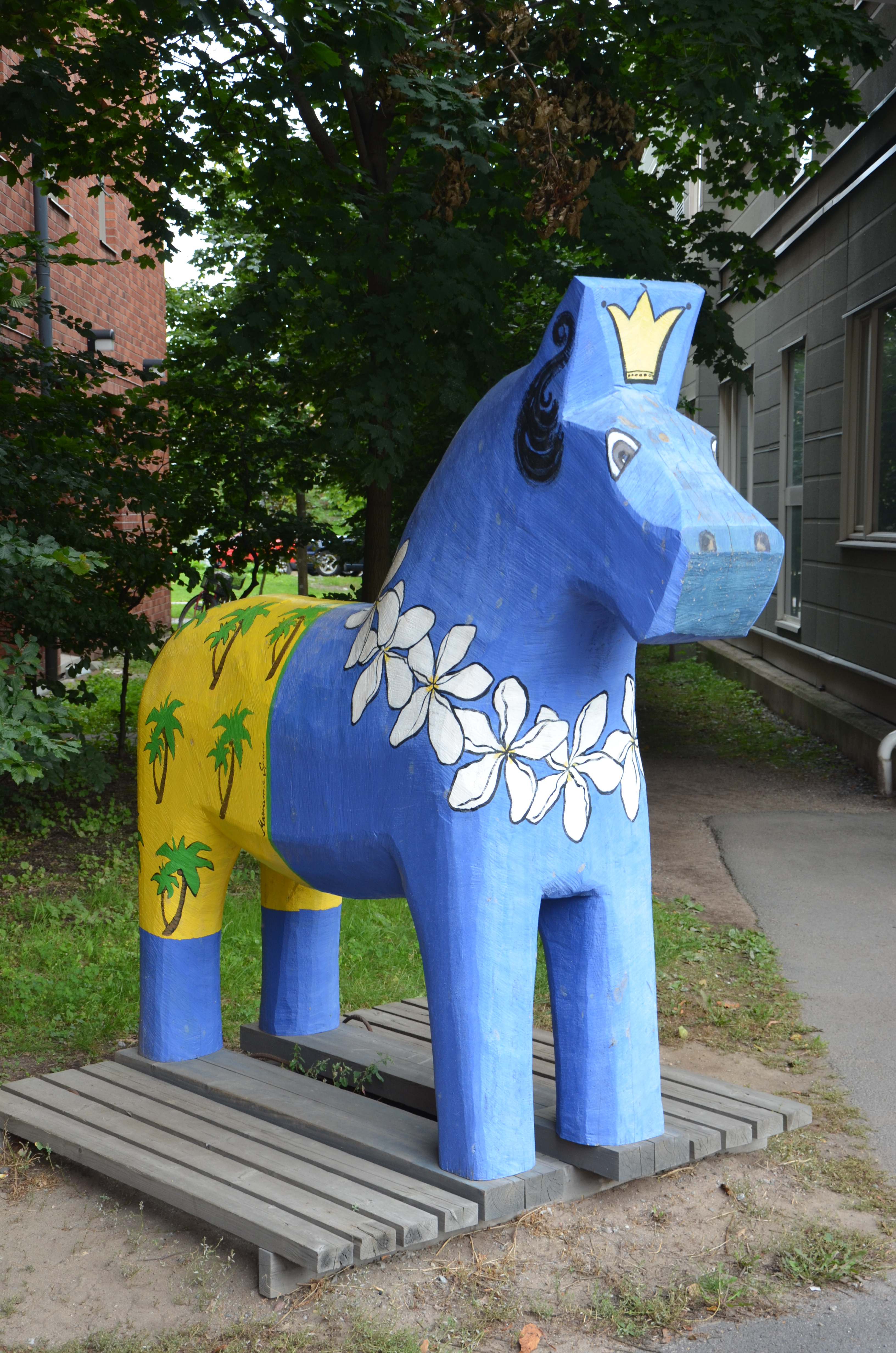 Swea Hawaii, sculpture by Torbjörn Lindgren, painted by Marianne Sparre Snelling, Karolinska Universitetssjukhuset, Solna, Sweden, outside barnkliniken, 2004